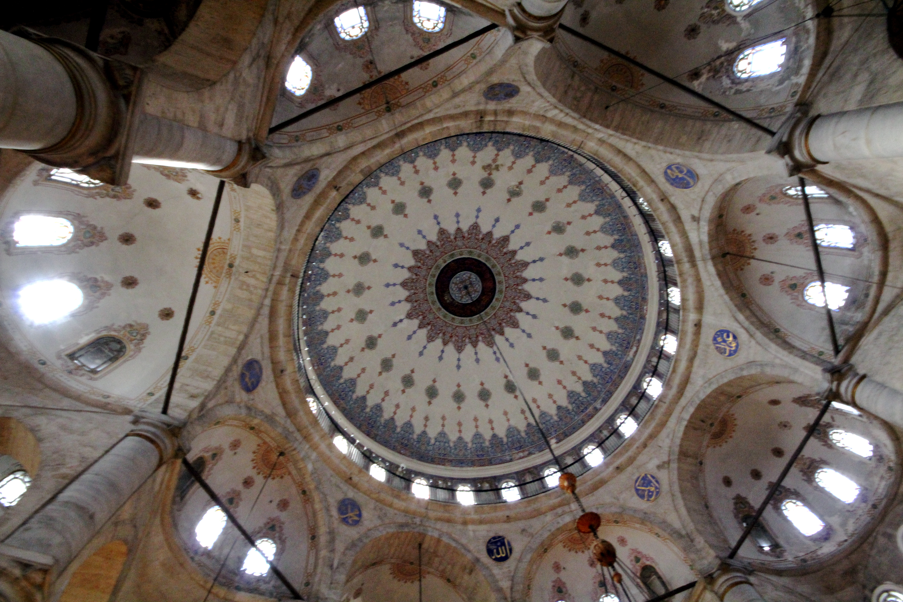 Interior of Eyüp Sultan Mosque in Istanbul , Turkey